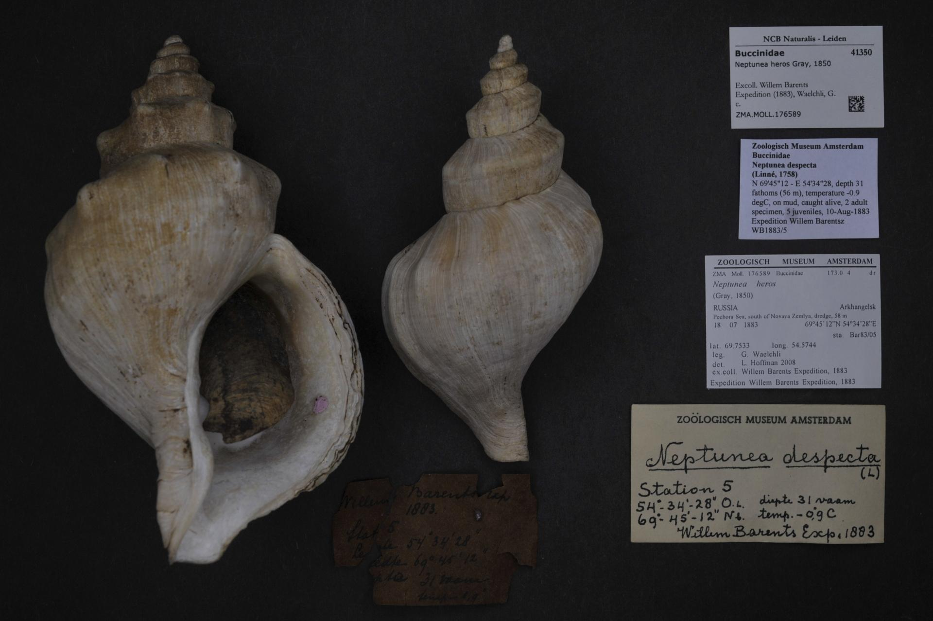 Neptunea heros Gray, 1850